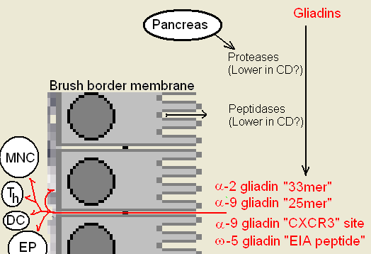 Show the fate of several gliadin peptides in coeliac disease or gluten dependent exercise induced anaphylaxis. "33mer, the DQ2.5 immunodominant proteolytic fragment, 57-89, of alpha-2 gliadin. "25mer" the innate peptide, 31-55, of alpha-9 gliadin. The "CXCR3" binding site is locates in QVLQQSTYQLLQELCCQHLW peptide from alpha-9 glaidin. The exact sequence of omega-5 gliadin is not known. The "33mer" and omega-5 gliadin peptide are further activate by human tissue transglutaminase on the laminar side of the membrane. The deamidated 33mer is bound by APC and presented to T-helper cells. The innate "25mer" stimulate mononuclear and other cells releasing stimulatory IL15. The "CXCR3" binding domain binds the epithelial cell, through a cascade results in the weakening of tight junction, allowing larger peptides to enter. The omega-5 gliadin enters the blood stream and activated Mast cells and Eosinophils when bound by IgE.